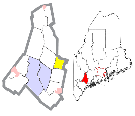 Map of the divisions of Androscoggin County, Maine, United States, with the town of Wales highlighted in yellow. The cities of Auburn and Lewiston are light blue; other towns are white; and pink areas are census-designated places within towns.